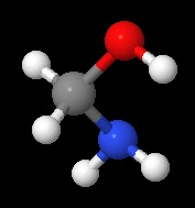 Aminomethanol, made using Jmol